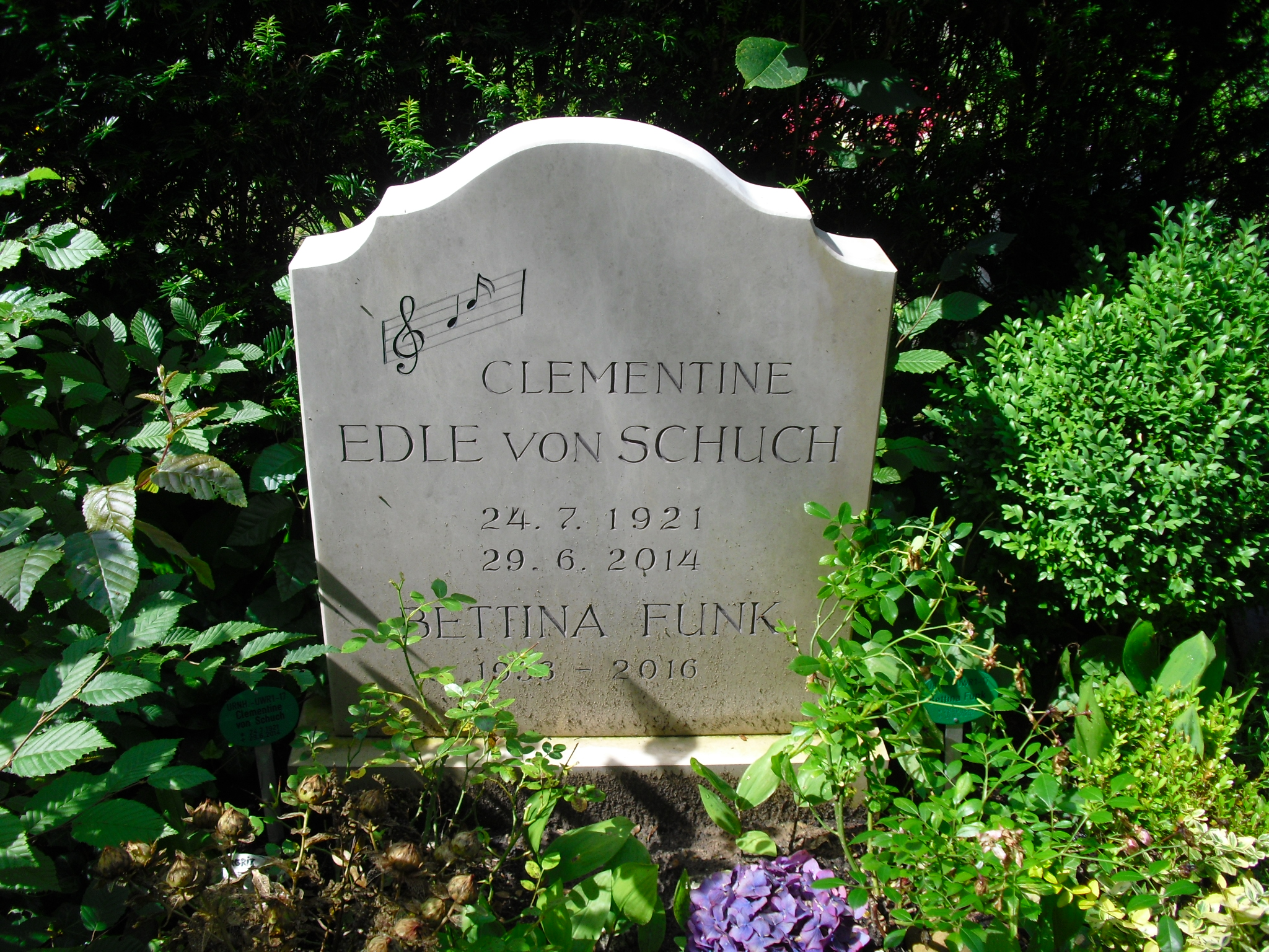 Grave of German opera singer Clementine Edle von Schuch in Berlin, Friedhof Lichterfelde.